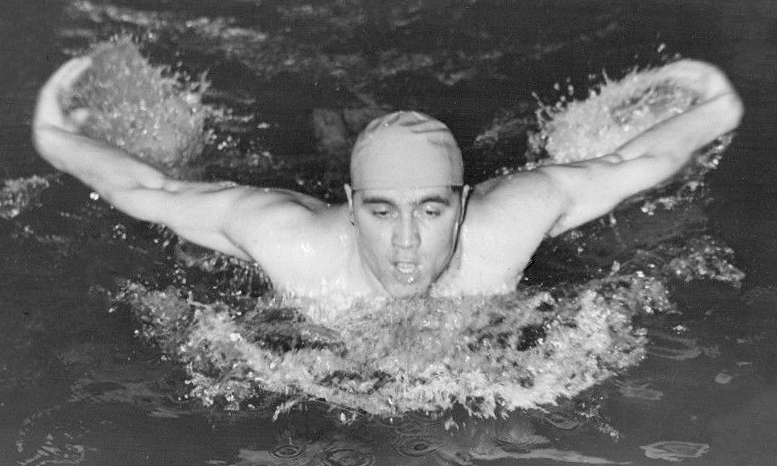 1951 Munich Germany Herbert Klein Sets New Unofficial World Record Press Photo